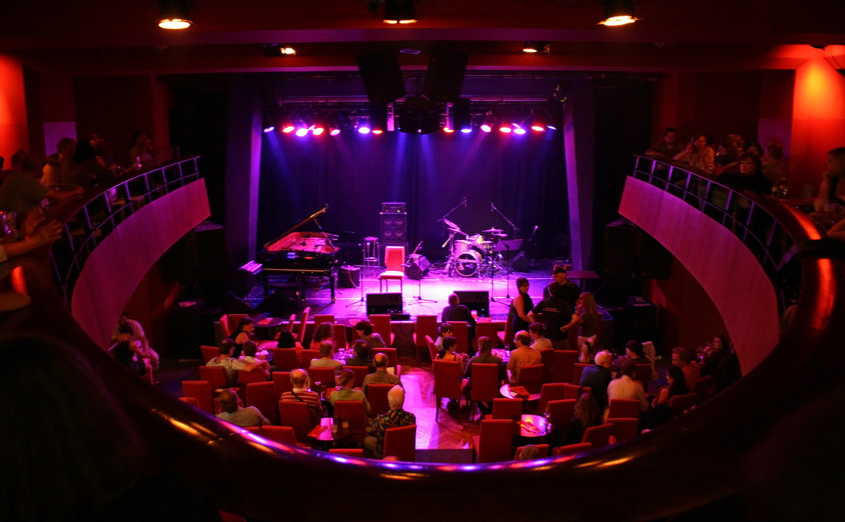 Jazz and Music Club Porgy & Bess in Vienna